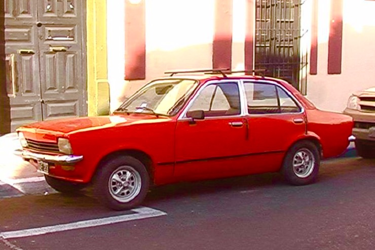 Argentine version of Opel Kadett